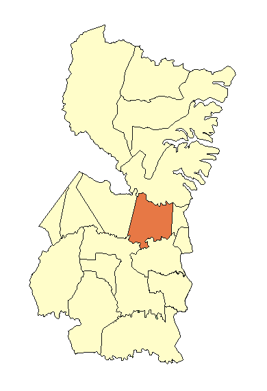 Minga Guazu within the alto parana department.